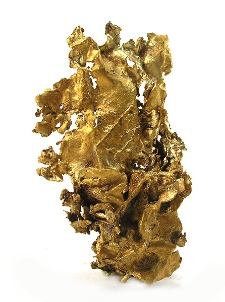 Gold Locality: Porgera Mine, Mt Kare Valley, Mt Hagen, Enga Province, Papua New Guinea (Locality at ) This is a stunning piece of unusual size and quality, and sturdiness. The thick leaves are more like plates than the typical leafy things we often see. It is VERY bright and yellow-colored, indicating a high purity. This miniature also has some eye appeal, in its arborescent form, and easily holds its own with California pieces that are inexplicably pricier despite being more common. Here, you get a lot of surface area and volume fo ryour money, so it SHOWS like a much more expensive gold even though composed of leaves which cumulatively weigh less than massive gold would. 4.7 x 2.8 x 1.6 cm